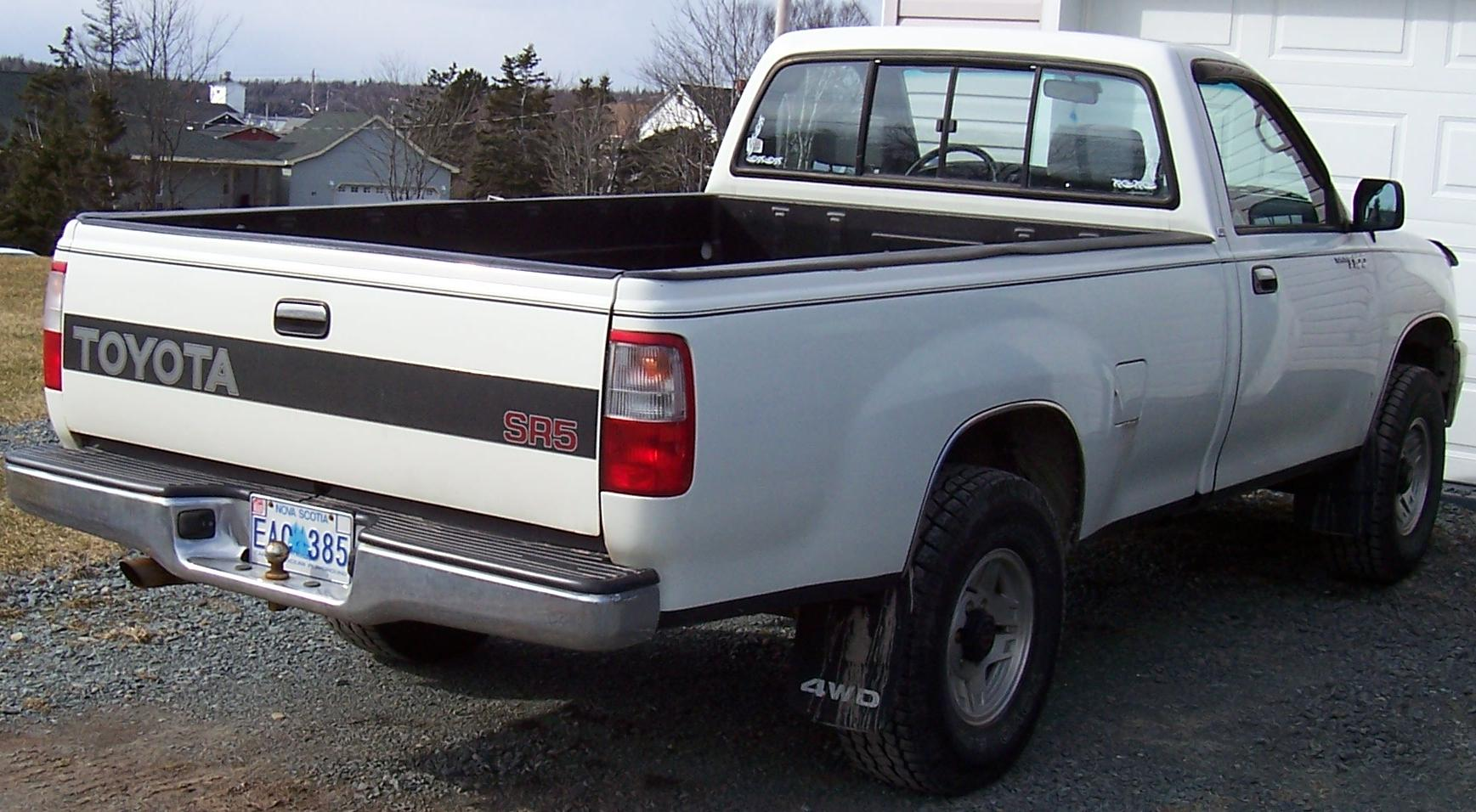 Rear view of a 1993 Toyota T100 SR5, in Nova Scotia, Canada.